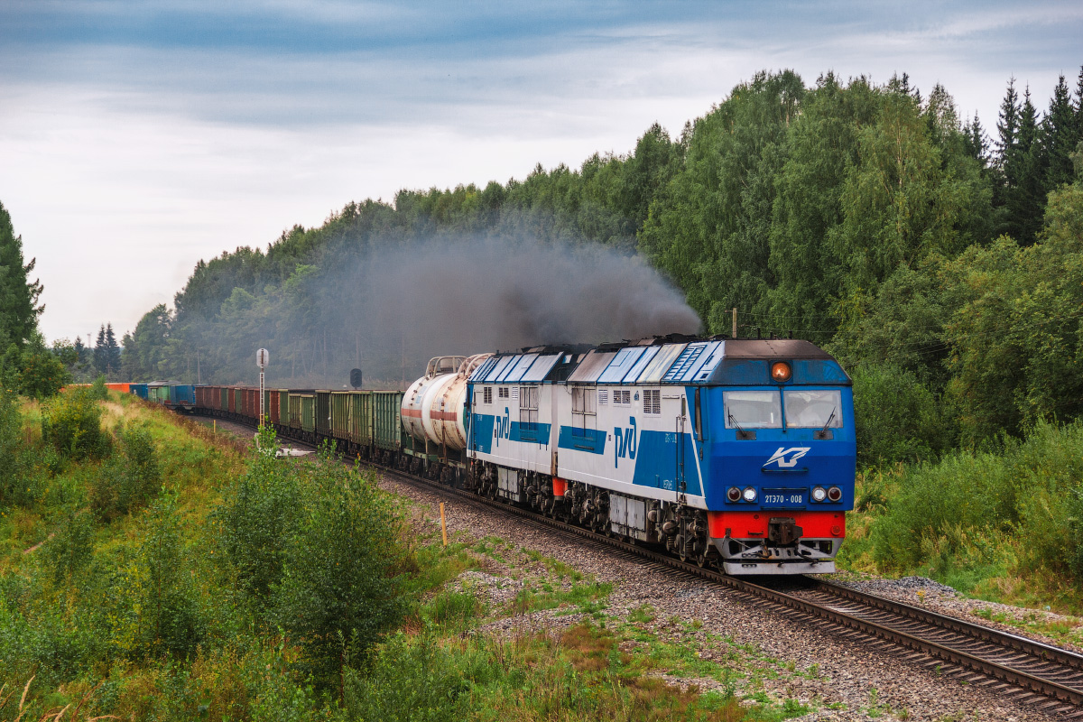 Diesel locomotive 2TE70-008 hauling a freight train.Section Vaga - Velsk near Velsk station, Arkhangelsk region, Russia